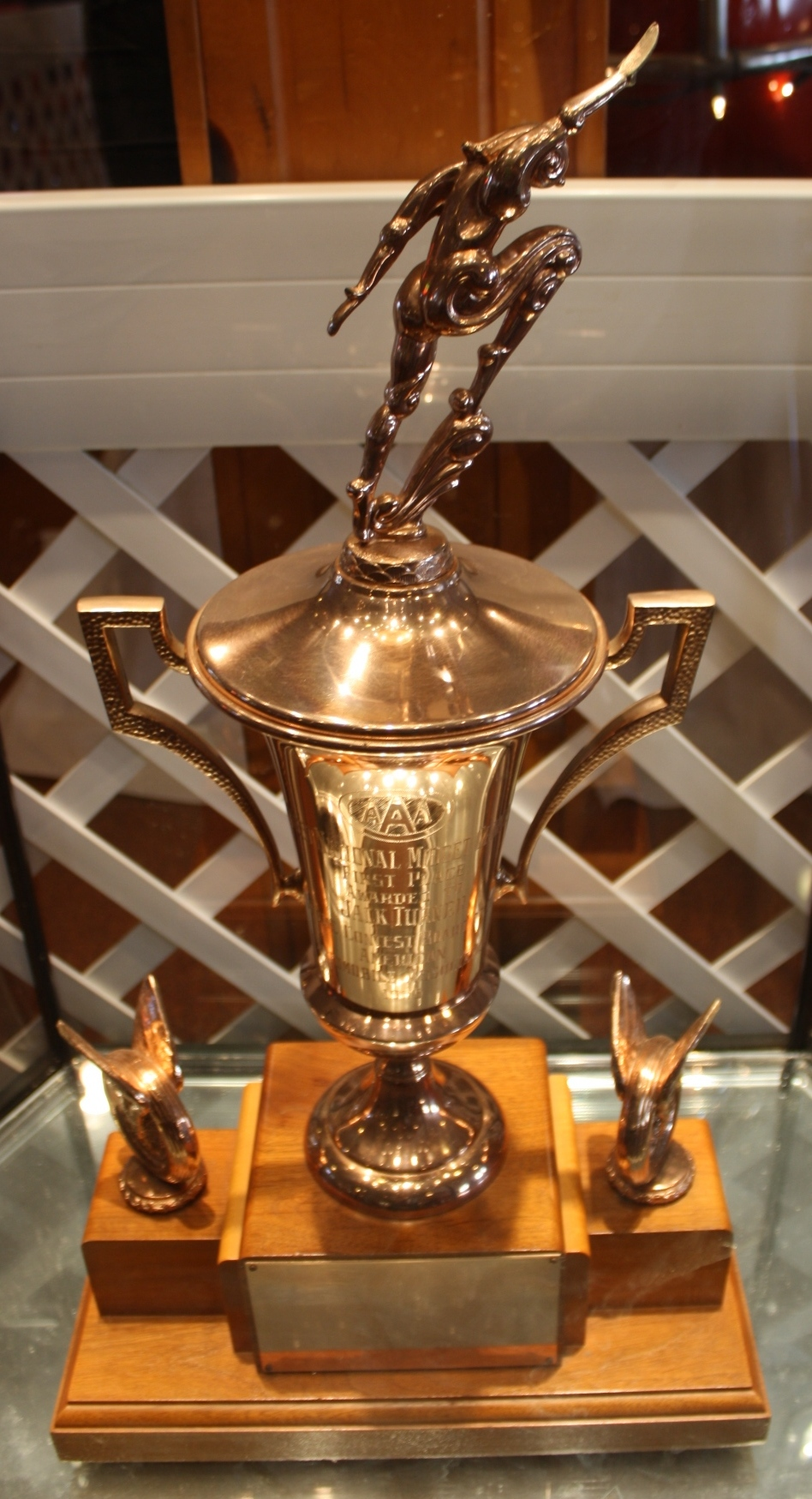 The trophy that Jack Turner (racing driver) was awarded for winning the 1955 AAA National Midget championship.